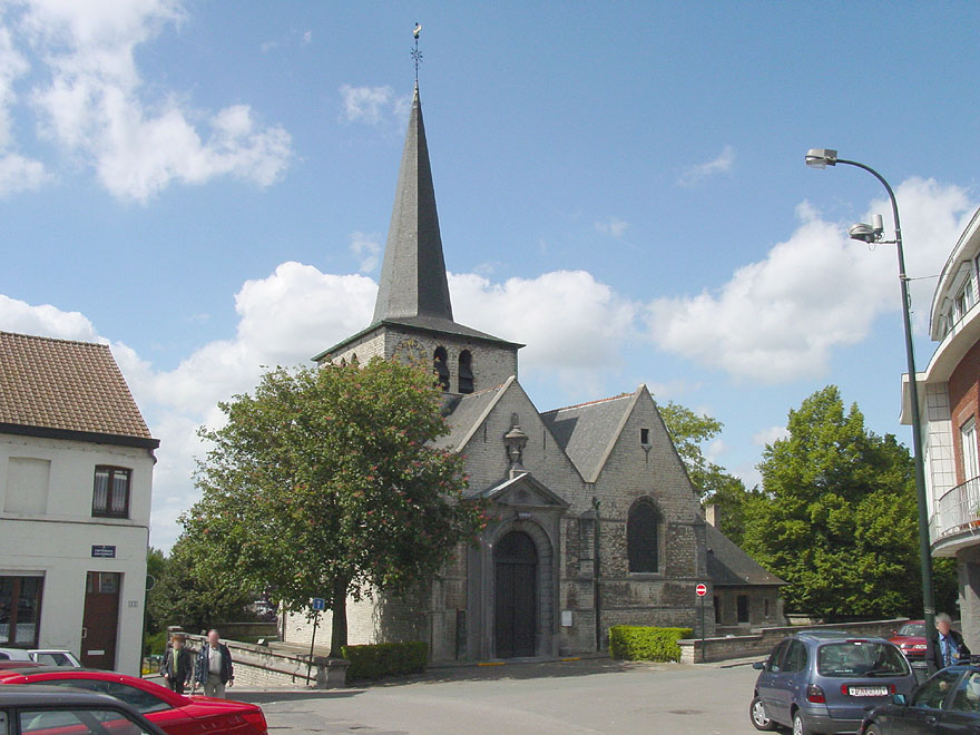 Photograph of the church of St Elizabeth, Haren, Belgium